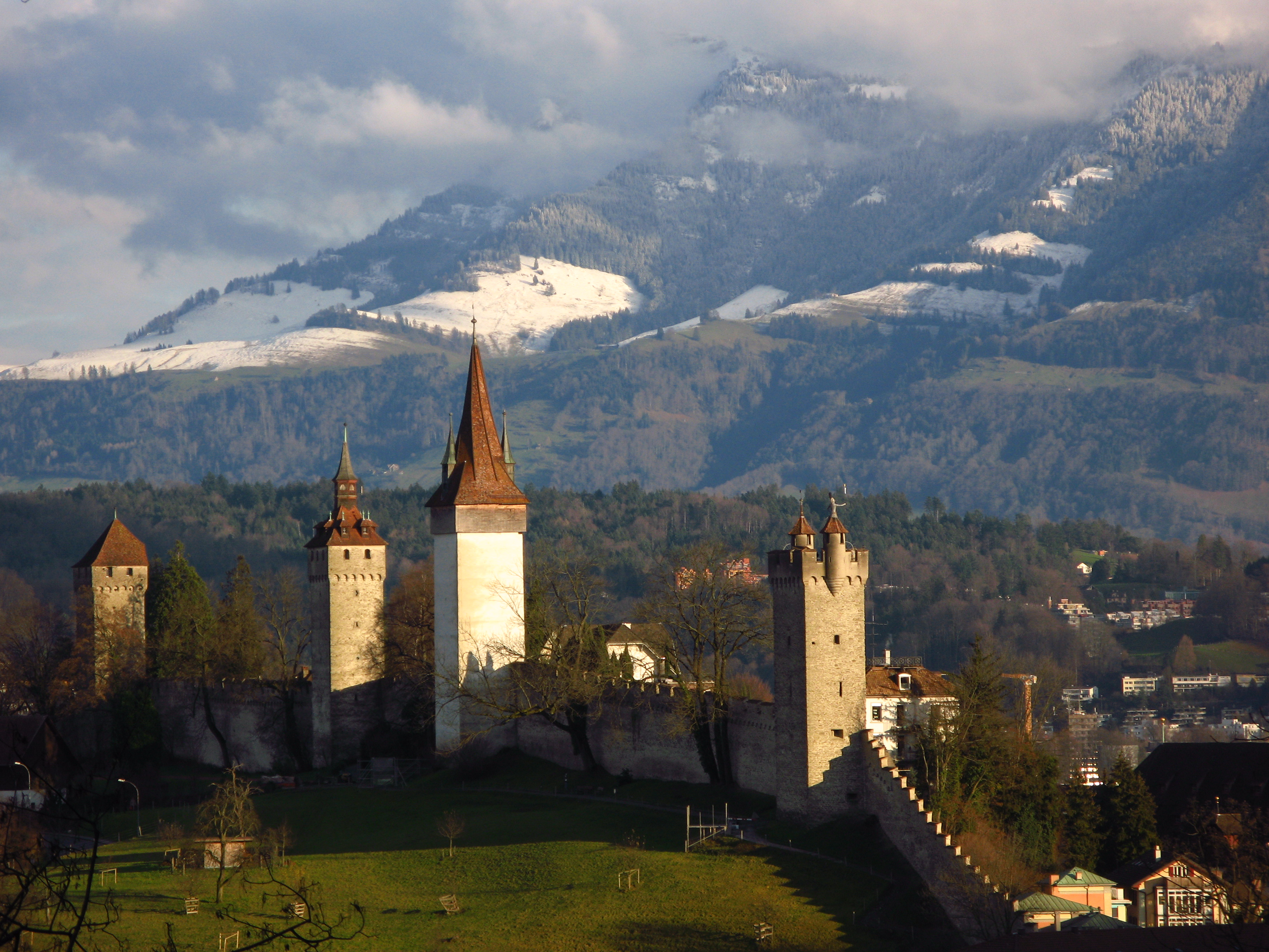 Lucerne's city wall with mount Rigi in the back.